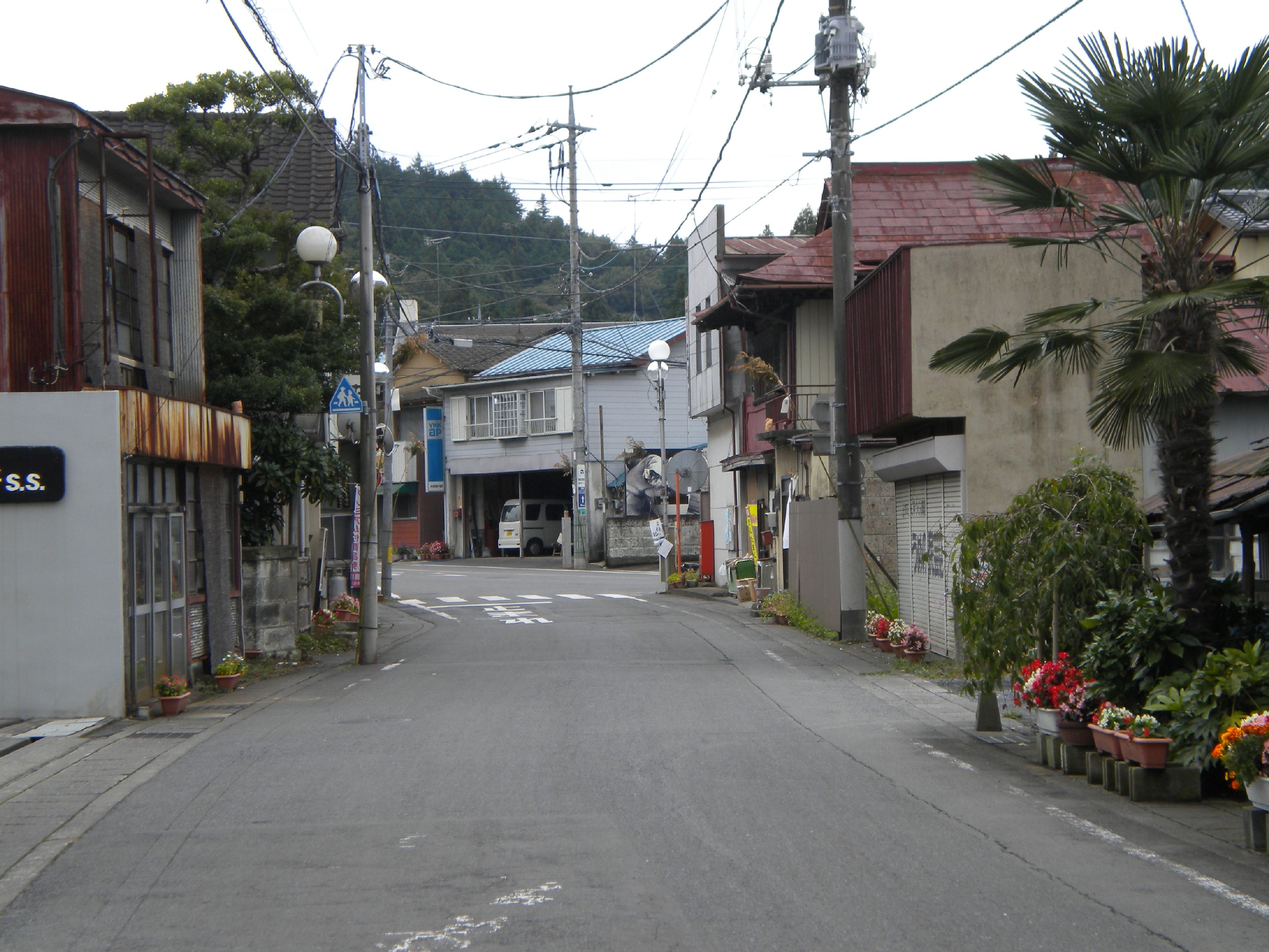 Tochigi prefectural road No.108 on Mashiko town